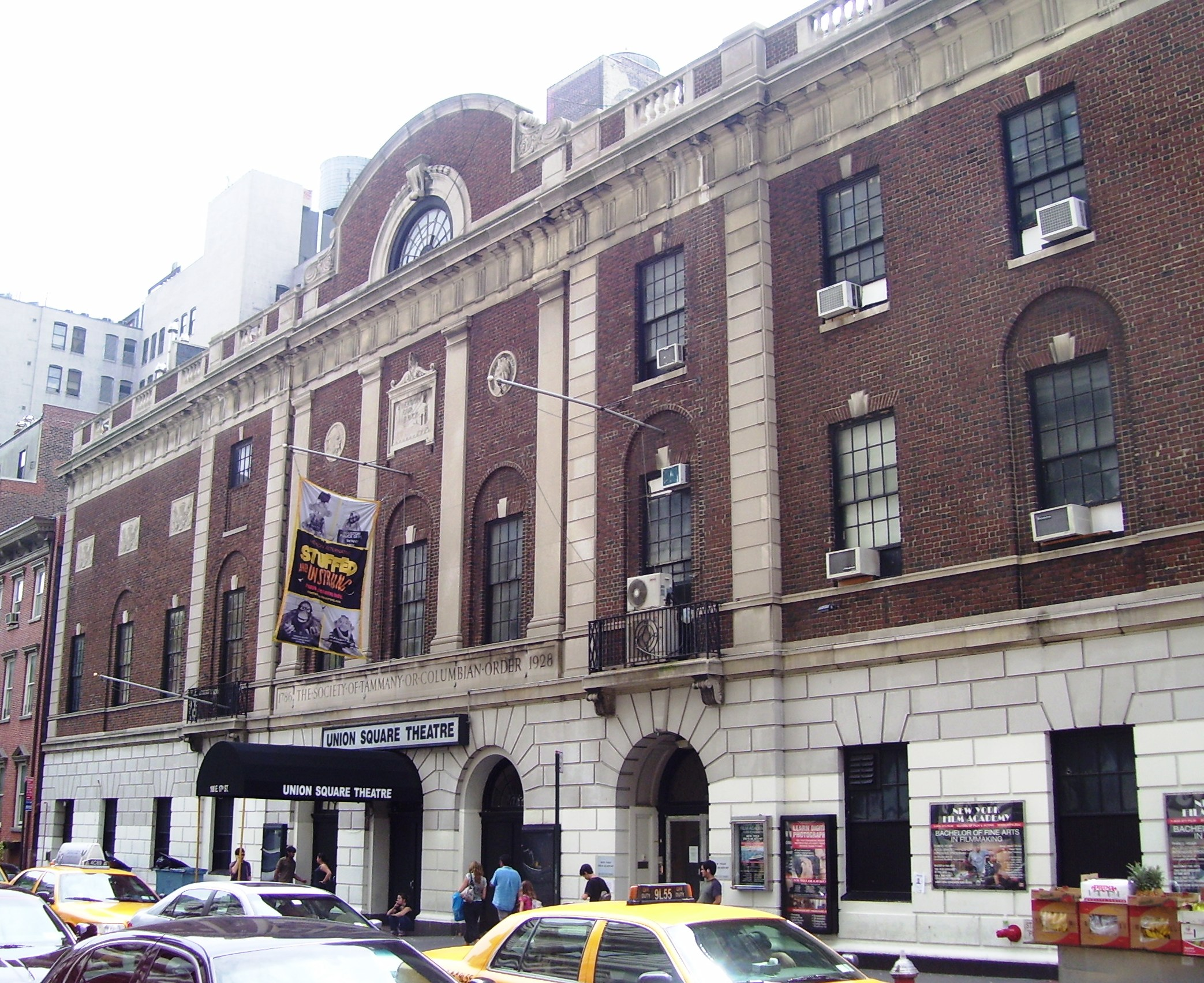 The Union Square Theatre, in the former Tammany Hall Building, on the corner of 17th Street and Park Avenue South in Manhattan, New York City, across from Union Square; the 17th Street facade.